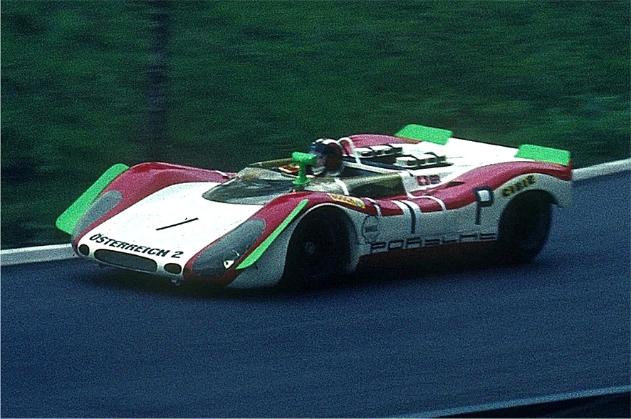 Porsche 908/01 driven by Joseph Siffert at the 1000 km of Nürburgring 1969.